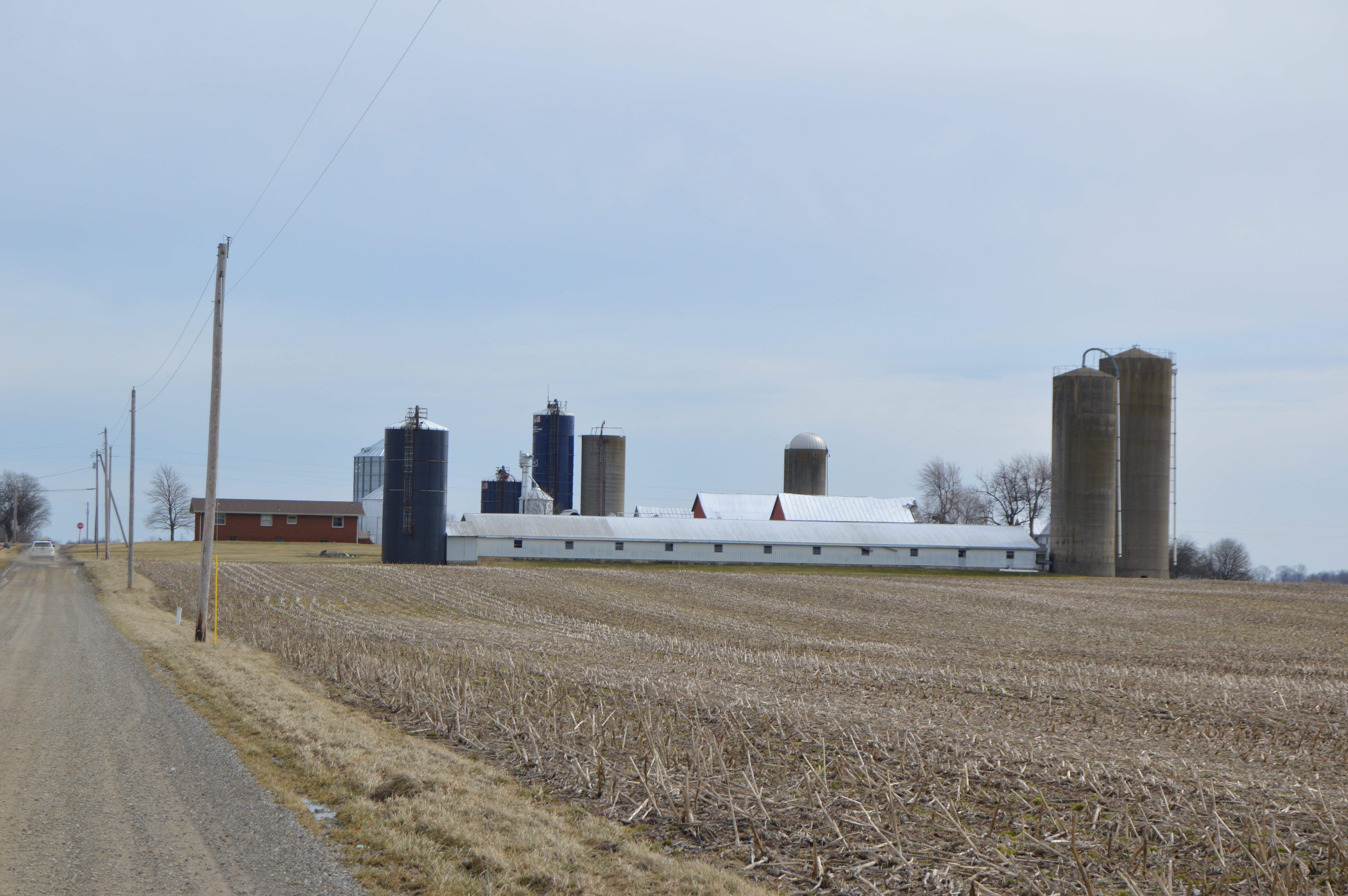 View from the west of a farmstead on the southwestern corner of the junction of Bishop and Simmons Church Roads south of Mount Liberty in northwestern Milford Township, Knox County, Ohio, United States.